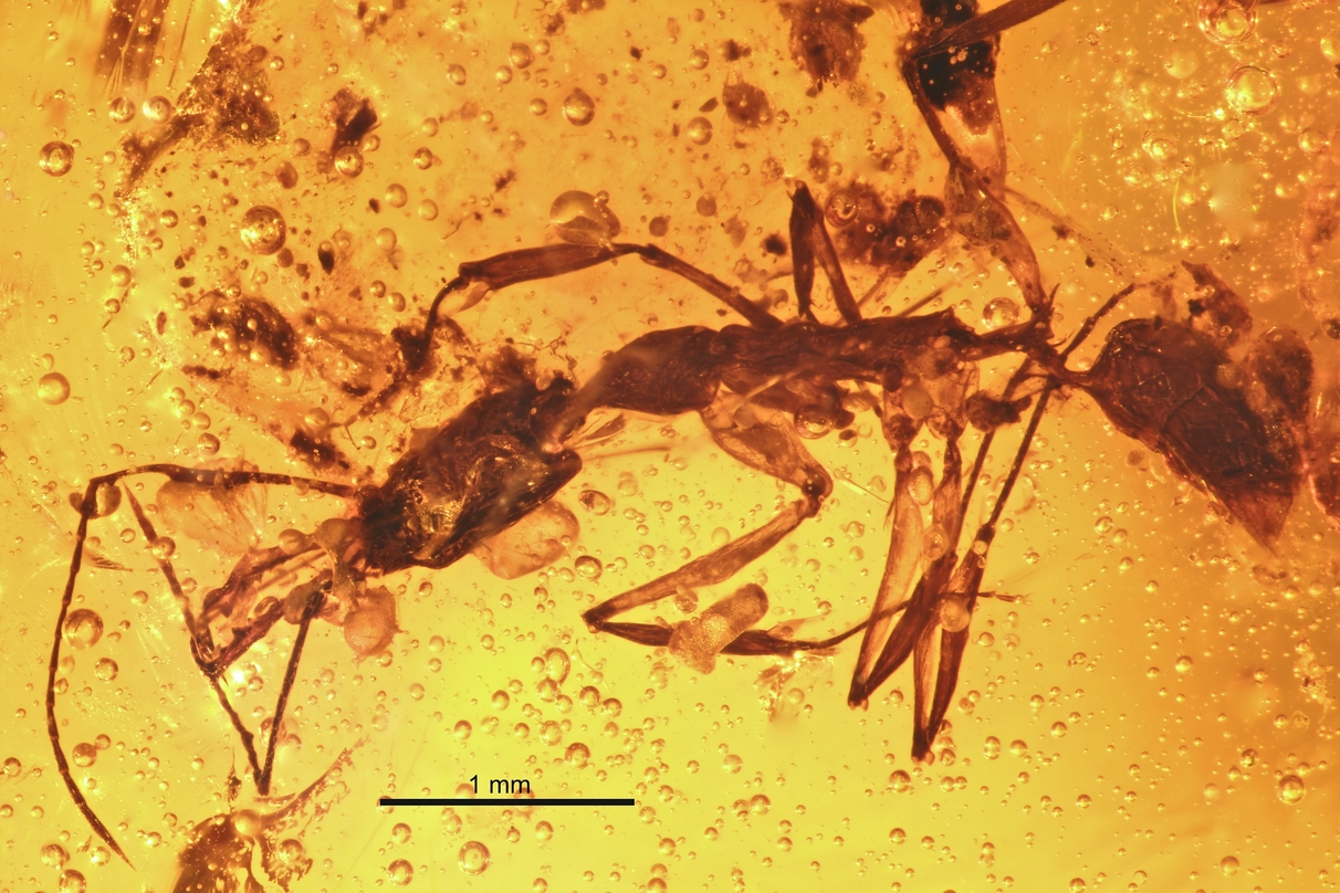 Profile view of the Anochetus intermedius holotype. Specimen BMNHP-II33.